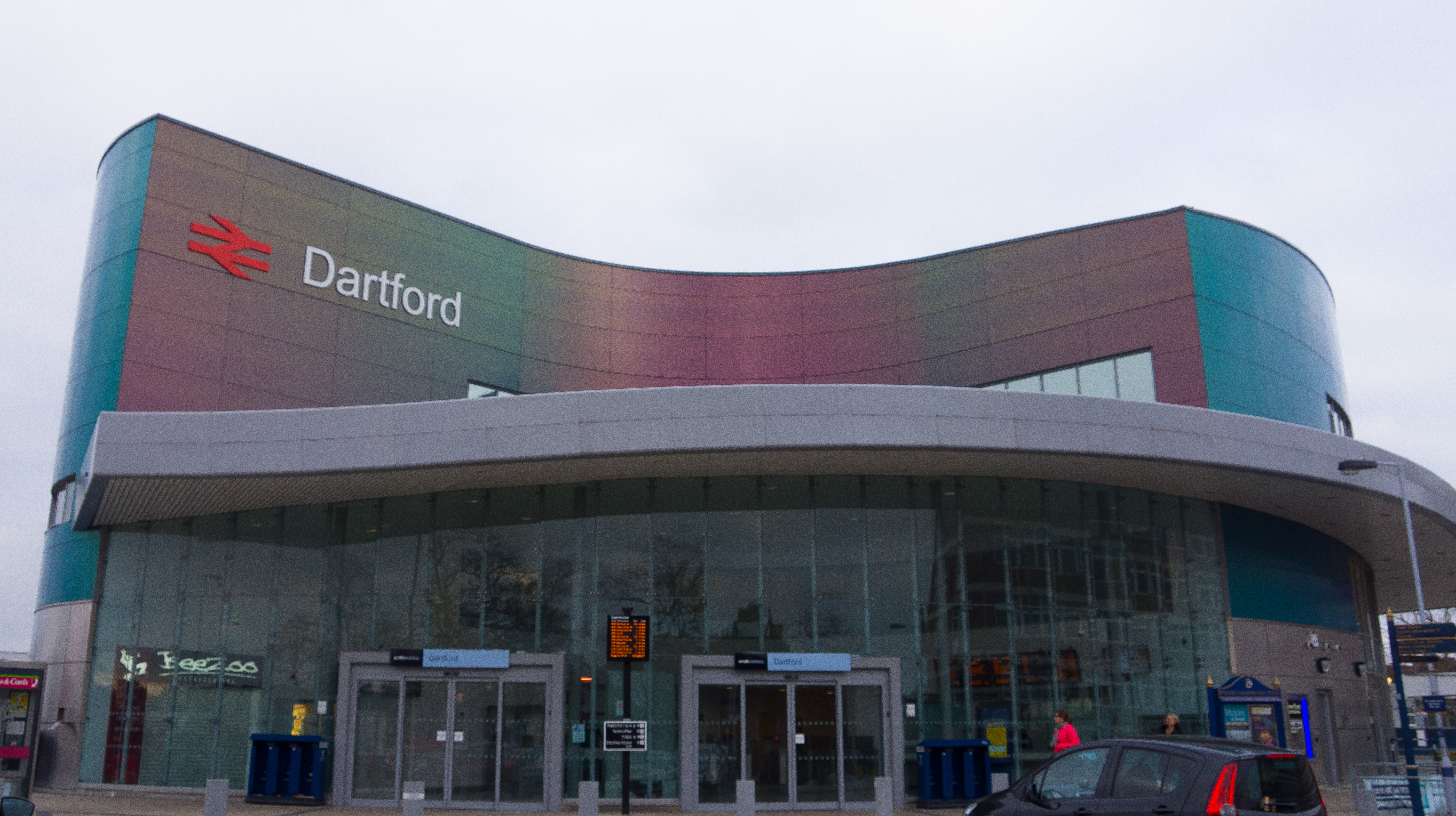 Dartford Railway Station